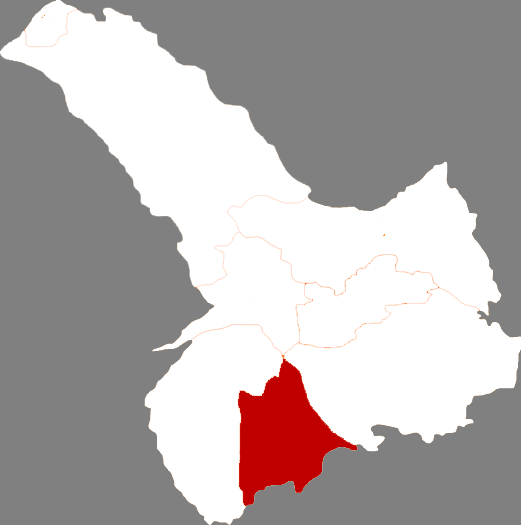 Locator map of Hure Banner in Tongliao, Inner Mongolia, China